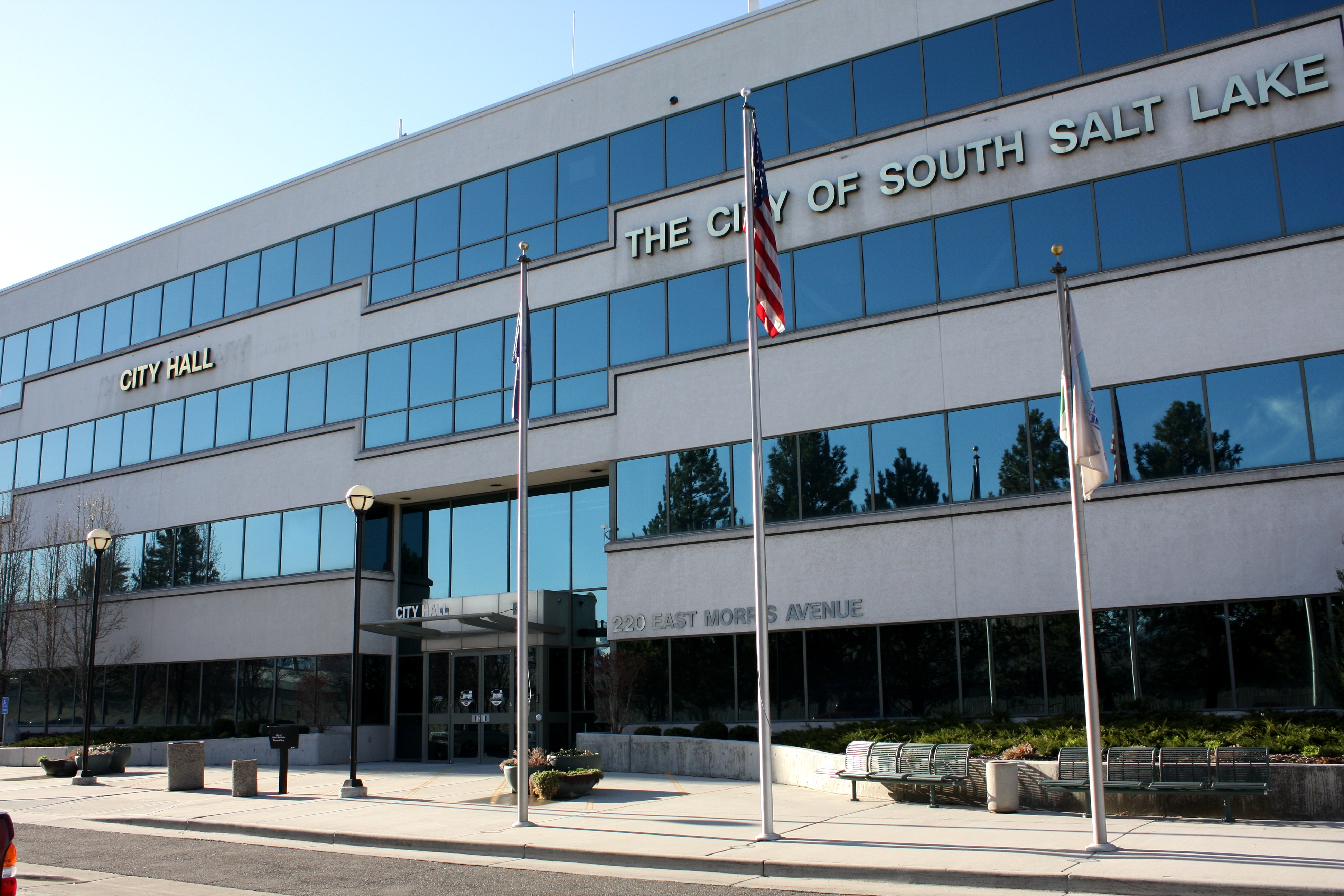 City hall in South Salt Lake City Ut. Residents can pay their utility bills here. There is also a justice court and the mayor's office.